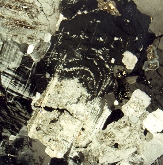 K-feldspar replacement of zoned plagioclase in the Vradal pluton, southern Norway. Microcline (top; black and grid-twinned) penetrates and replaces primary plagioclase (bottom; light-gray, speckled, faintly albite-twinned) along an irregular contact, which also includes veins into the plagioclase. Significantly, remnants of the zoning in the plagioclase are preserved in the microcline, which logically would not happen if the two feldspars crystallized simultaneously from a melt. Courtesy Dr. Lorence G. Collins